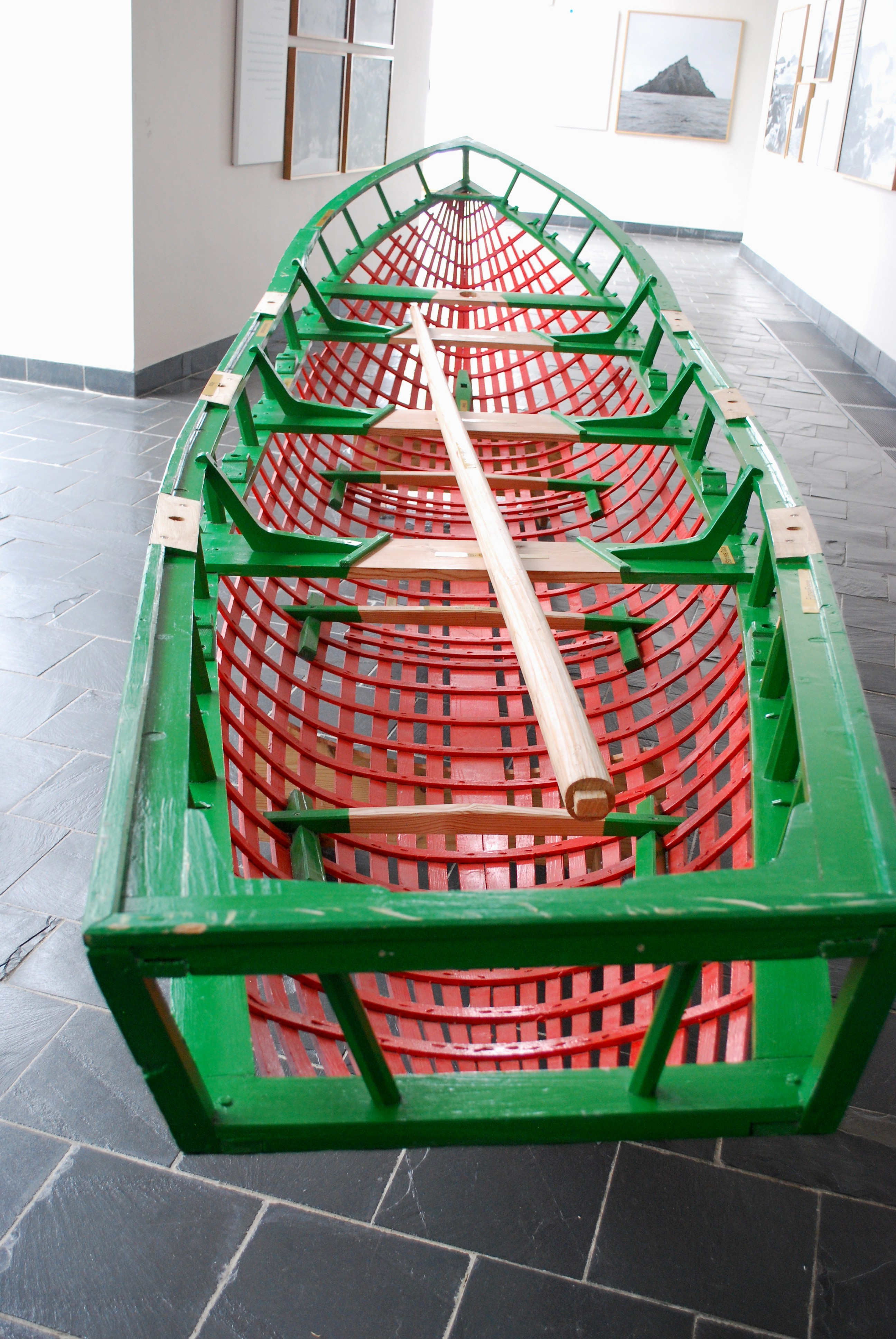 Currach Boat in Blasket Heritage Centre, Dunquin, County Kerry.